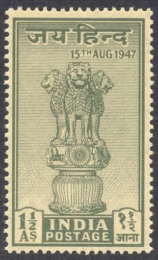 Asokan Capital. This stamp issued by the Government of India on 15 December 1947. Taken from the souvenir sheet of the stamp. Stanley Gibbons stamp catalogue of Commonwealth & British Empire stamps 2008. Stamp number 301 of India, page 269. P 14x13&1/2. Grey-green. Personal collection of User:AshLin. Second scan from the personal collection of User:Premkudva.